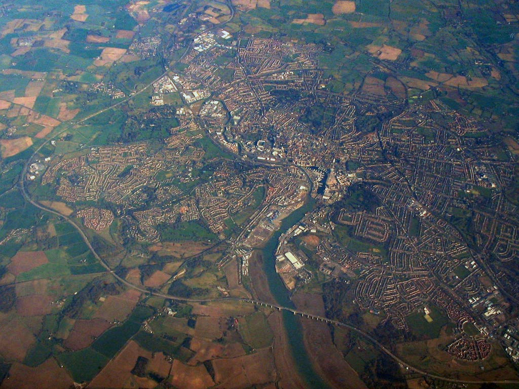 Aerial view of Ipswich, Suffolk in 2008.